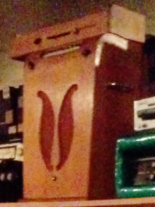 Ondioline (ca.1938 ?) keyboard on speaker, National Music Centre quote from other photograph: Ondioline Monophonic electonic keyboard, about 1938 Paris, France "Johanna's 2013 Piano Recital @ National Music Centre"